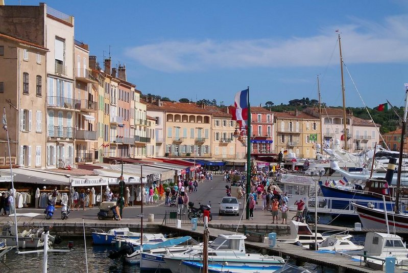 The port of Saint-Tropez (Var, France).